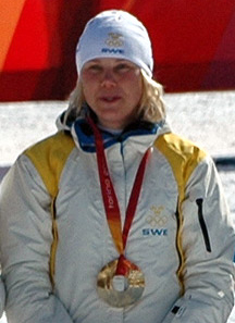 Anna Olsson (1976), Swedish cross-country skier. Medal cermony, 2006 Winter Olympics. (cropped from File:Lina Andersson and Anna Dahlberg 2007.jpg)